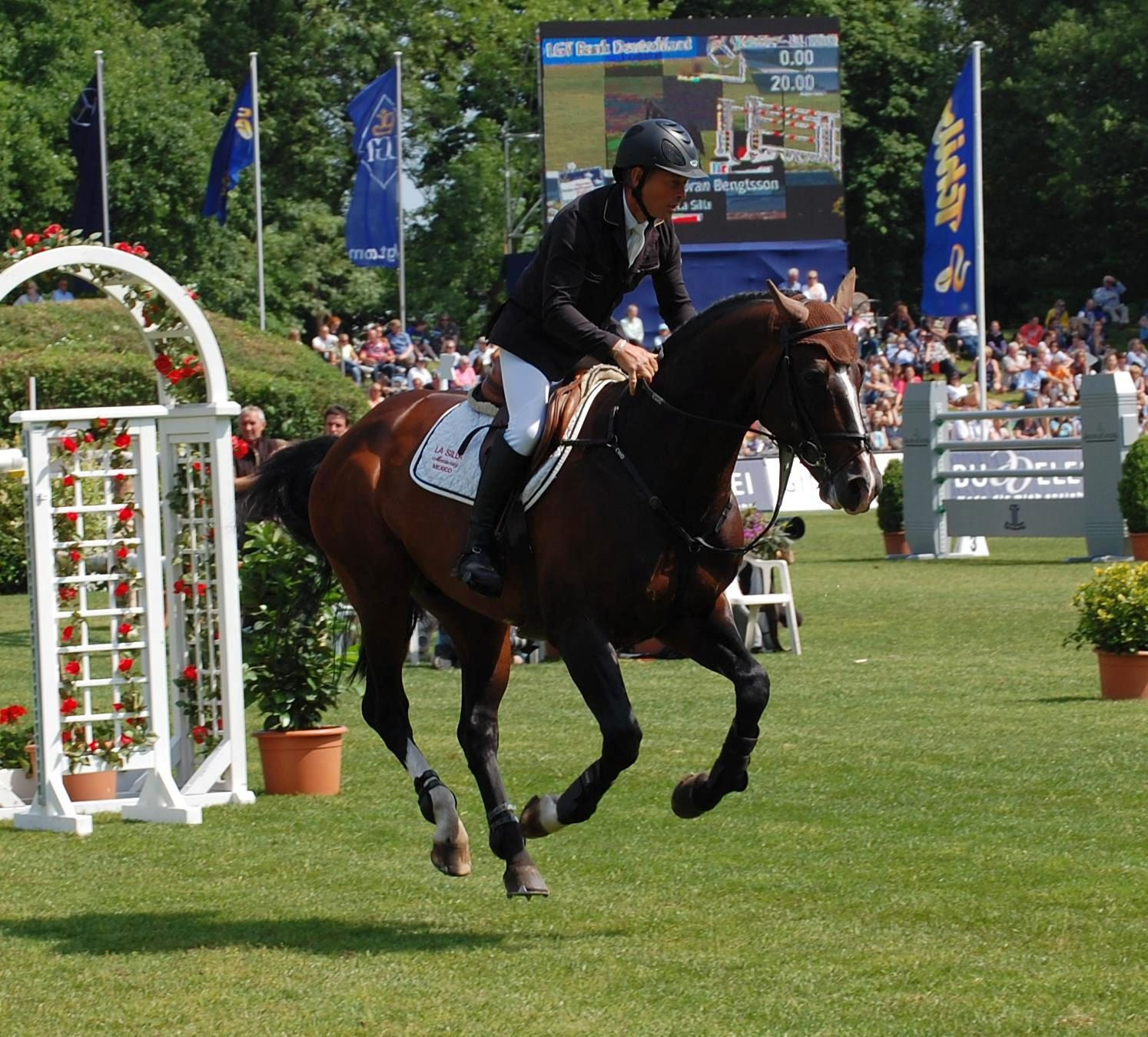 Rolf-Göran Bengtsson with Casall La Silla, "Championat von Hamburg" (qualifier competition to the Grand Prix), CSI 5* Hamburg 2011